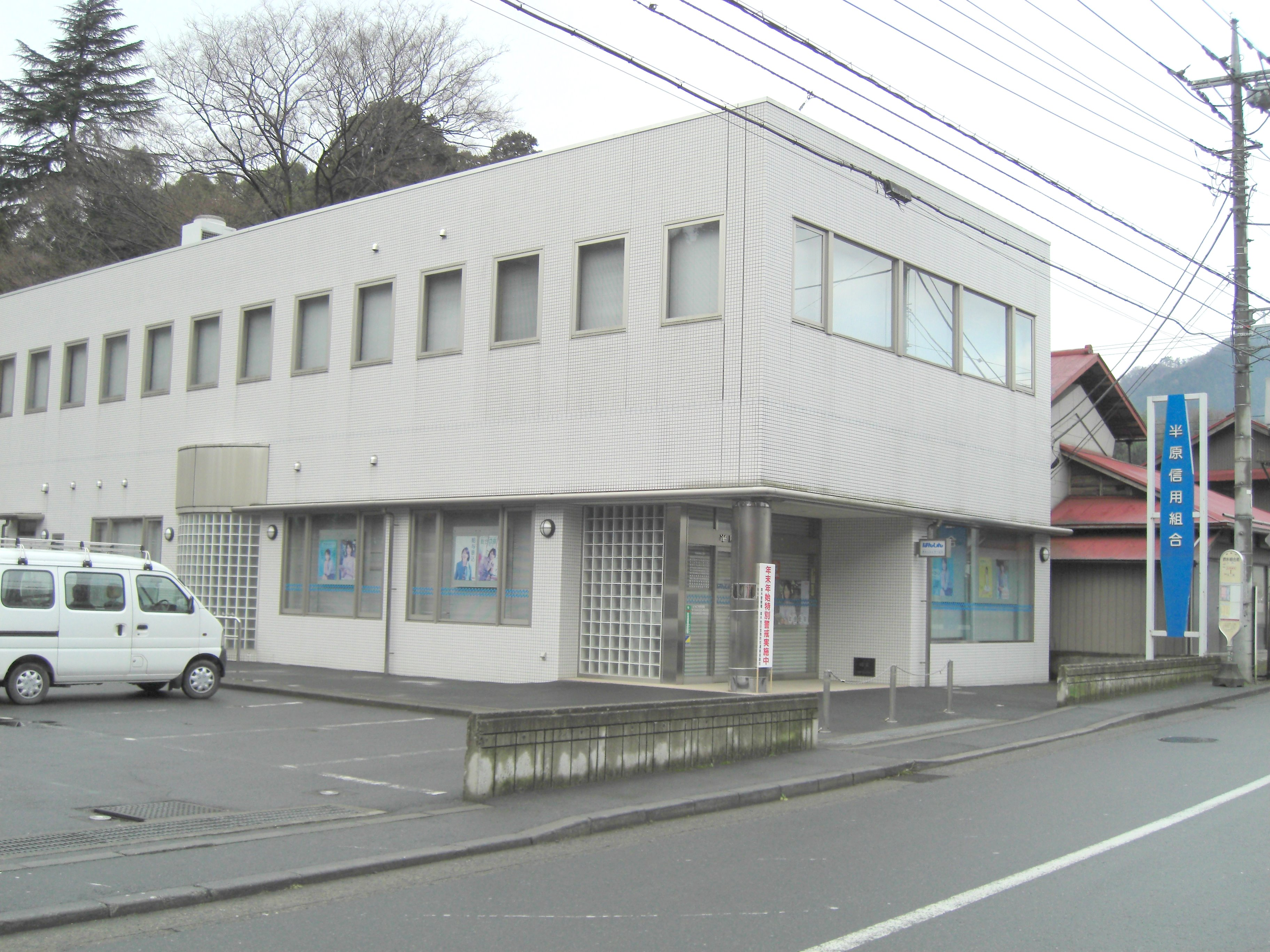 Hanbara Credit Cooperative head office